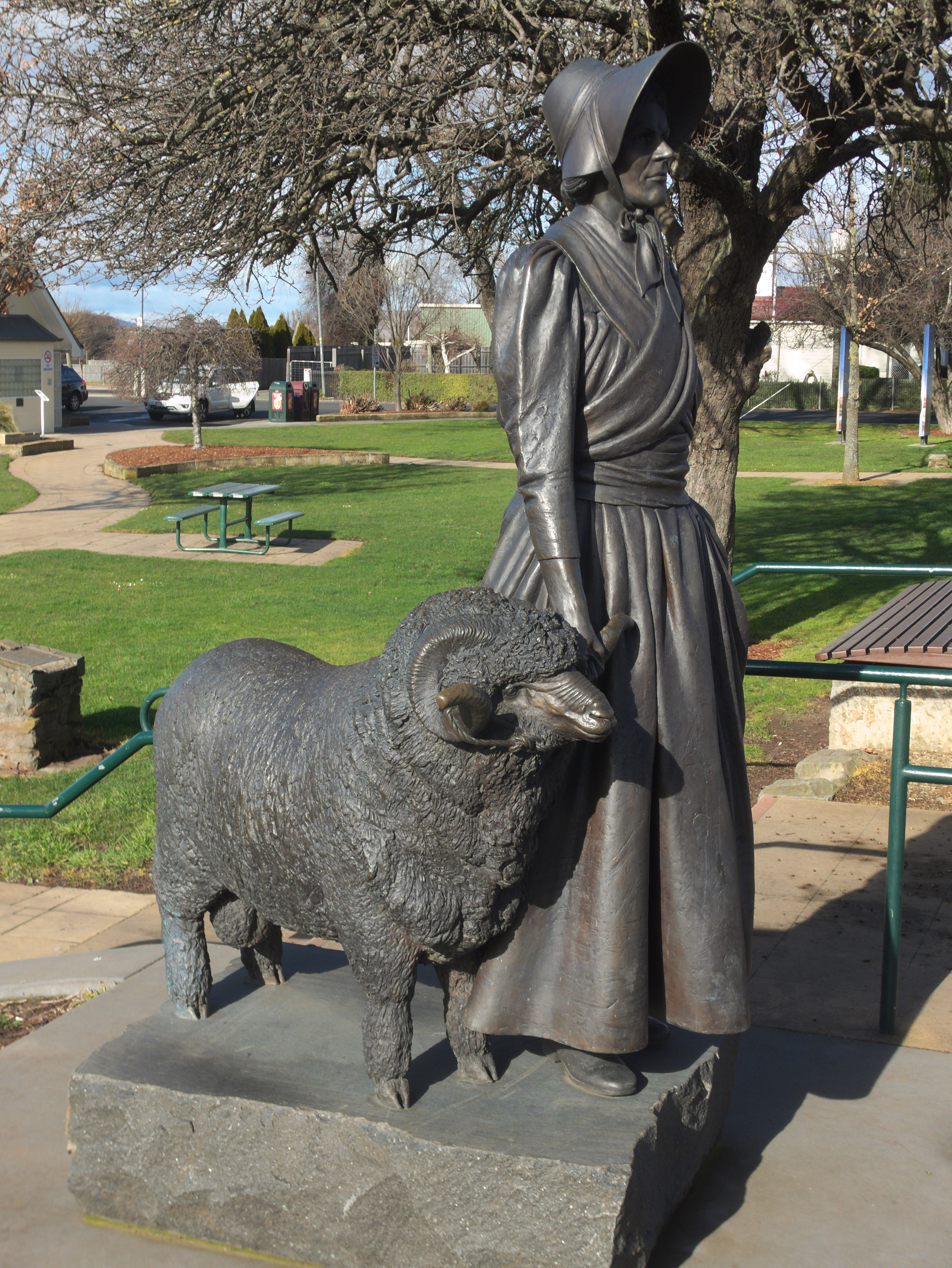 Statue of Eliza Forlong with a merino sheep in Valentine Park, Campbell Town, Tasmania. A plaque describes how Forlong (born Eliza Jack, 1784, Glasgow, died 1859) walked throughout Saxony to purchase merino sheep which were brought to Tasmania.